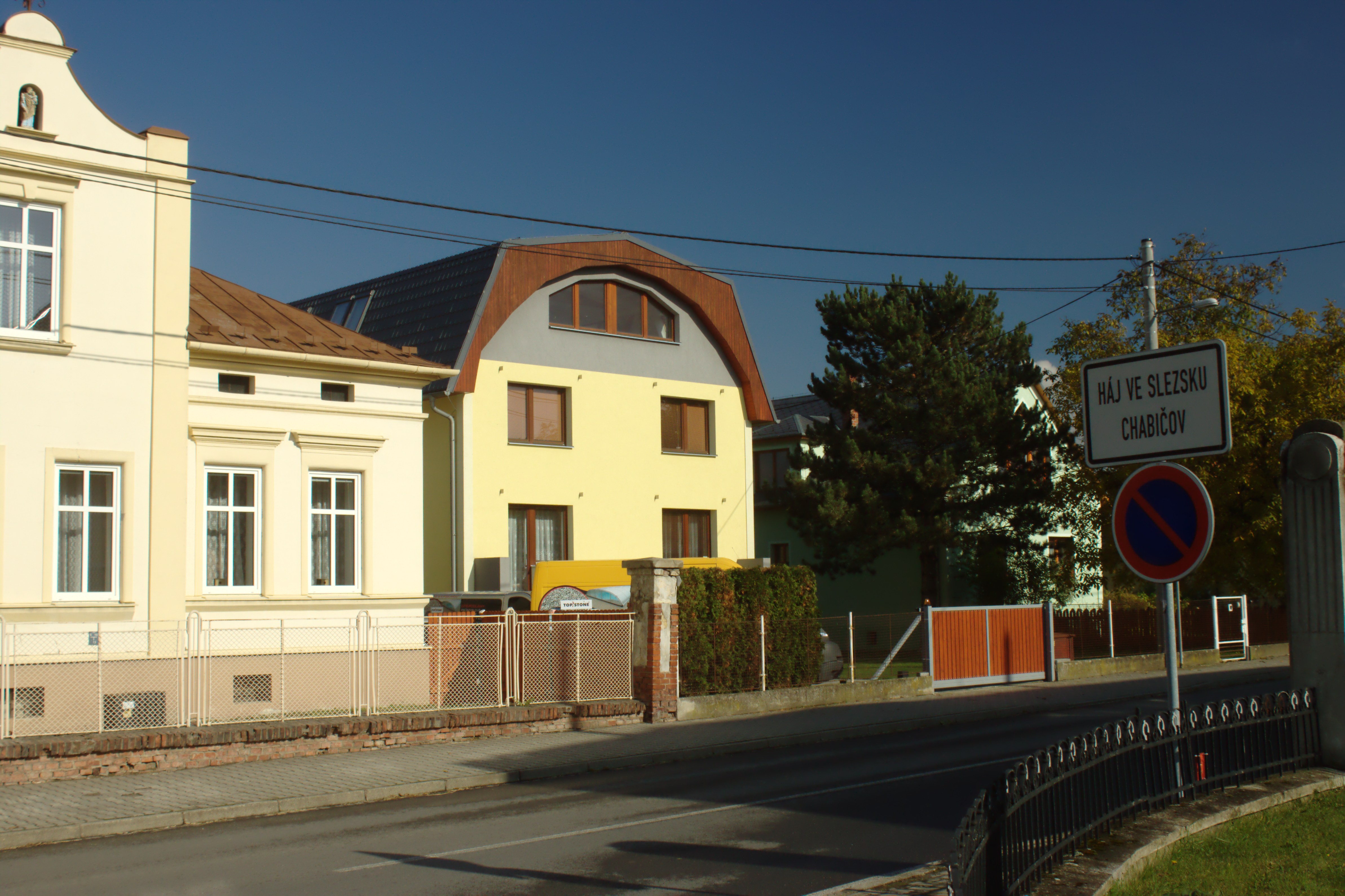 Western edge of the village of Chabičov, near Háj ve Slezsku, CZ